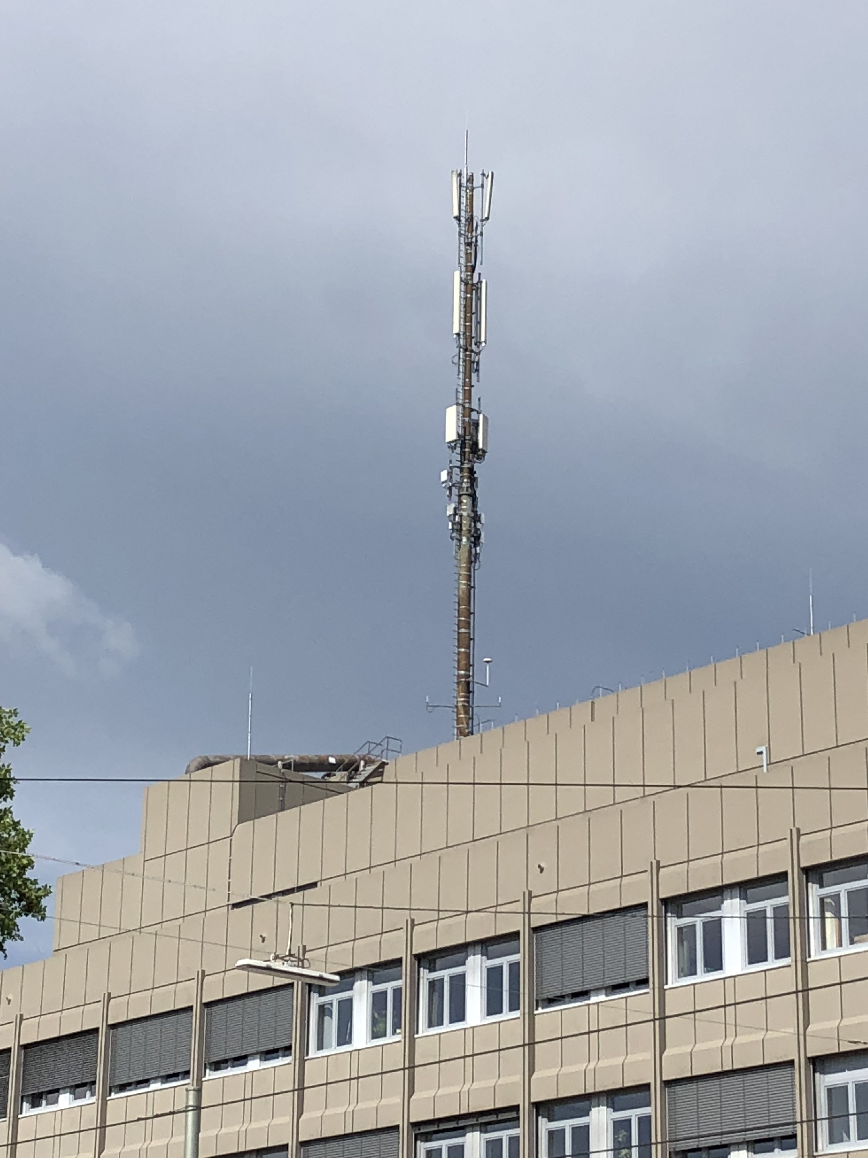 GSM, UMTS and LTE (Band 8, Band 3, Band 7) on top of a building from Deutsche Telekom in Karlsruhe, Germany